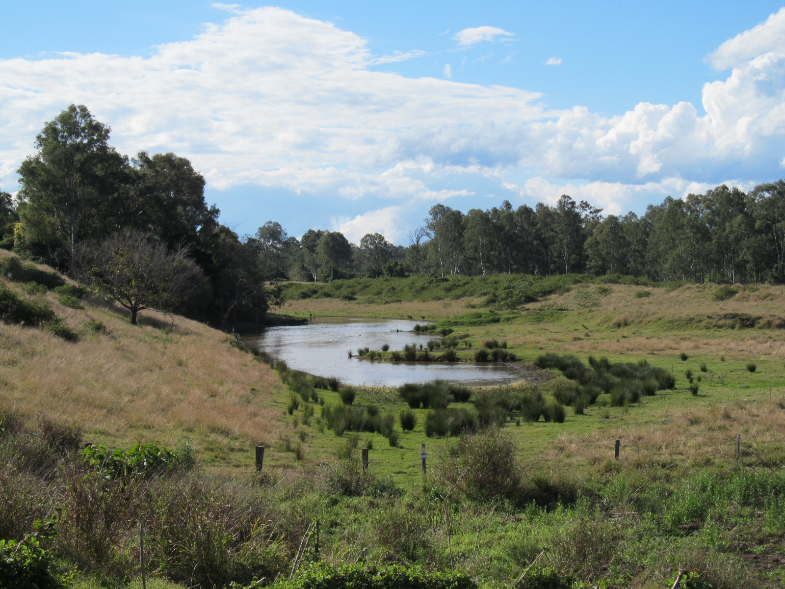 Lake near the Moggill ferry terminus in Riverview, Queensland